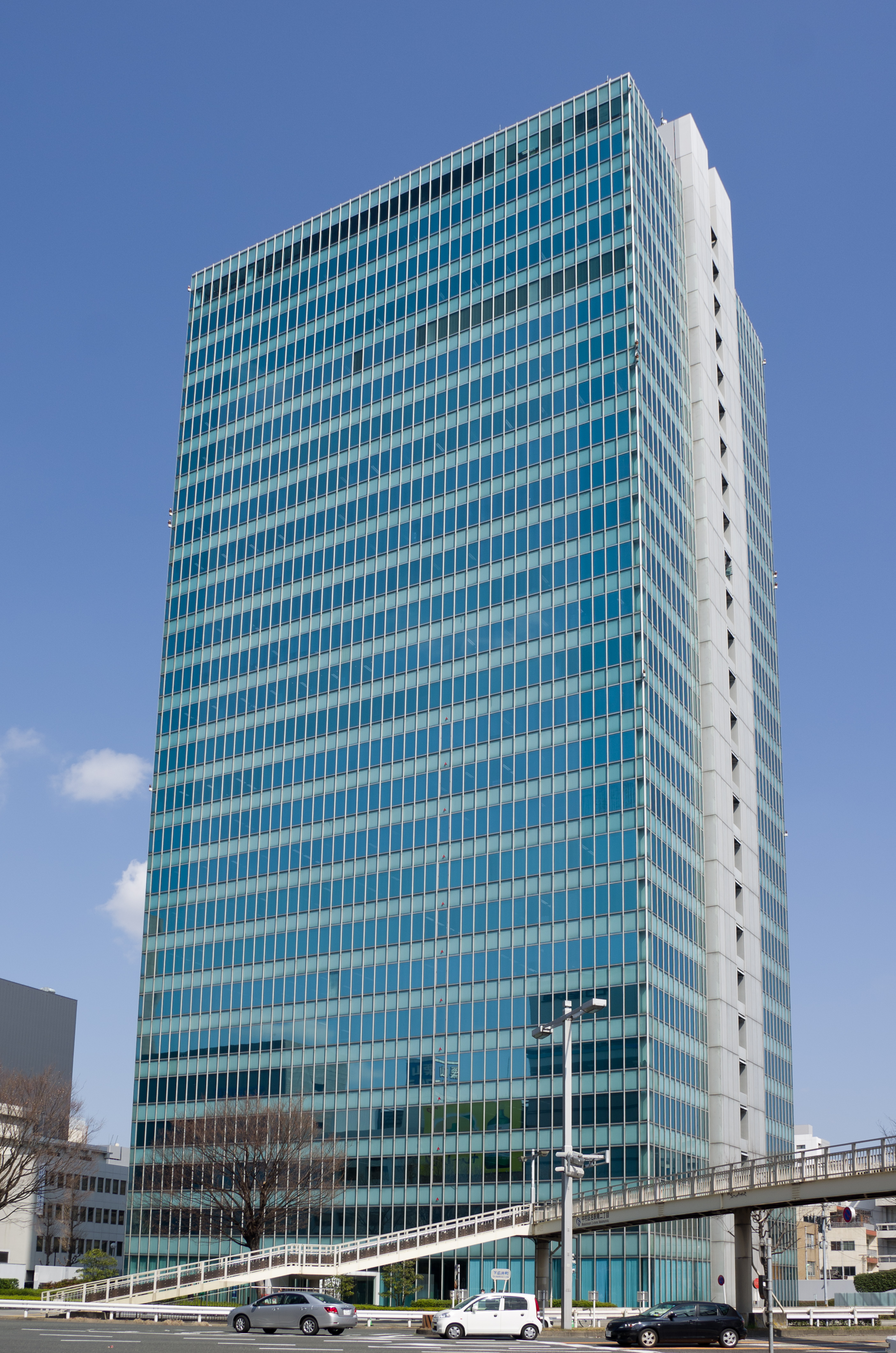 Sumitomo Life Nagoya Building in Nakamura-ku, Nagoya, Aichi, Japan.